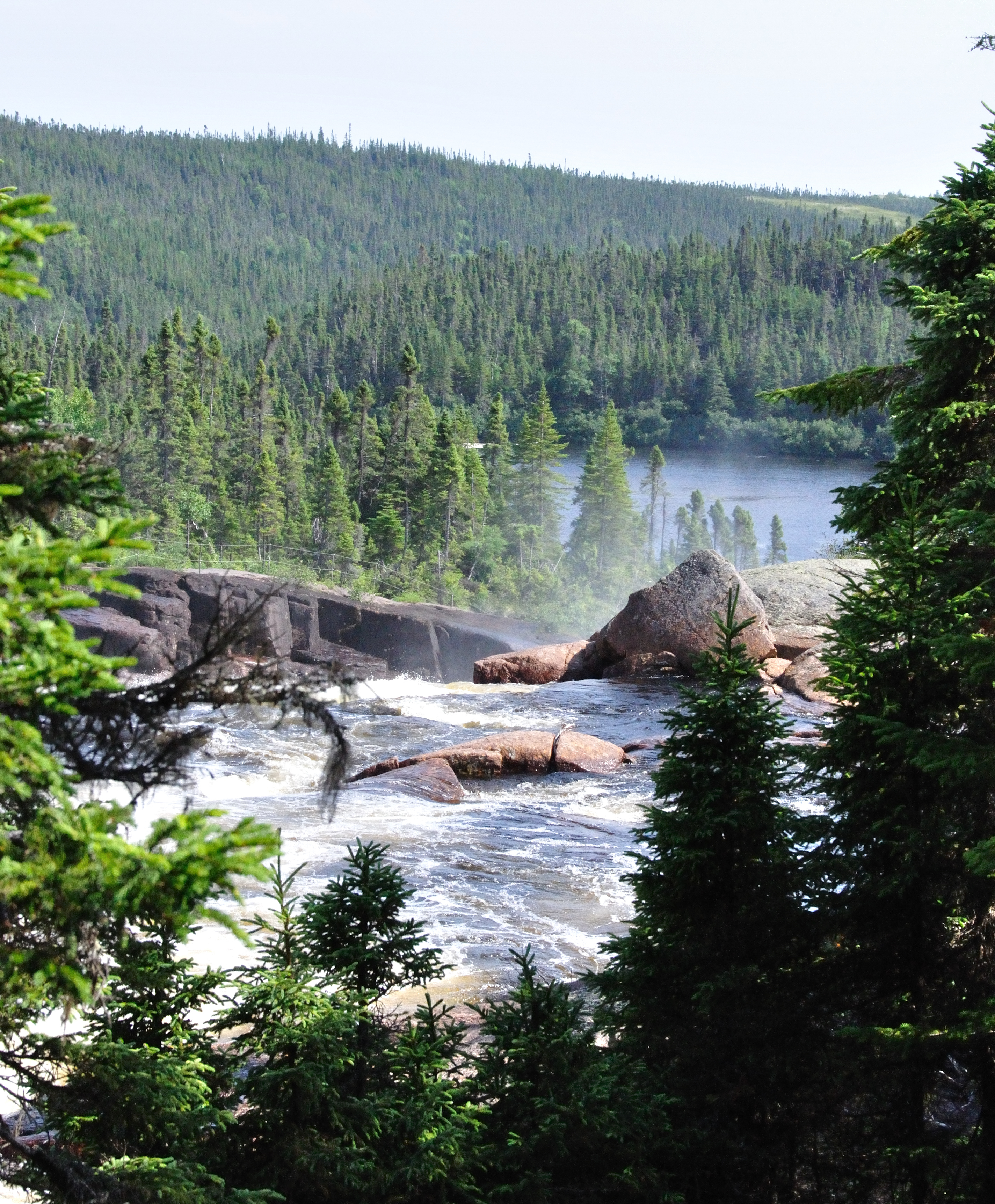 The Romaine river, near Havre-St-Pierre, Quebec.